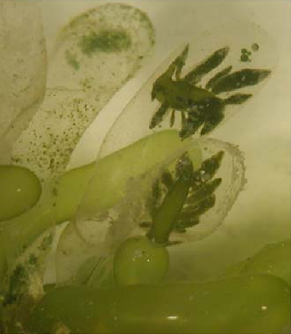 Ercolania kencolesi inside of Boergesenia cf. forbesii. Locality: Lizard Island, Great Barrier Reef. The length of the slug is about 0.5 cm.